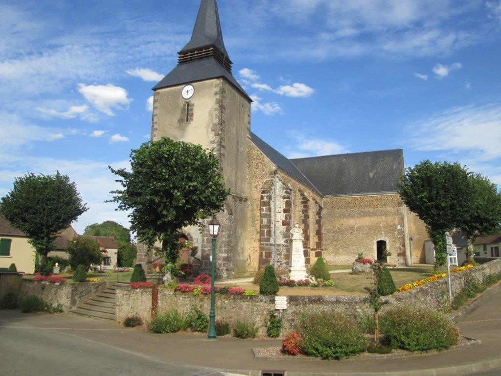 Photo of the church of Neuvillalais.